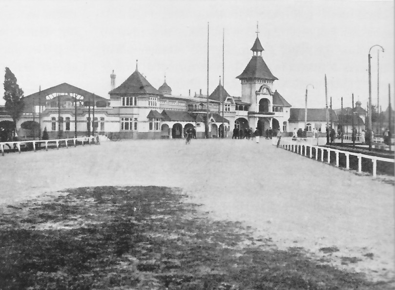 Tennis arena at Hamburg-Dammtor in 1907